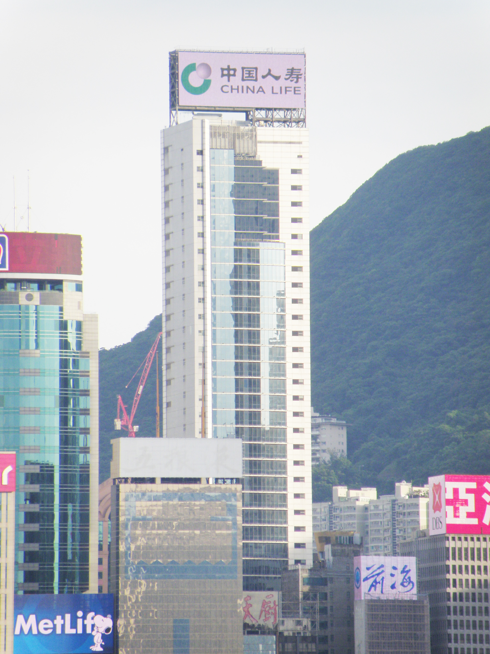 China Online Centre in Wan Chai, Hong Kong.